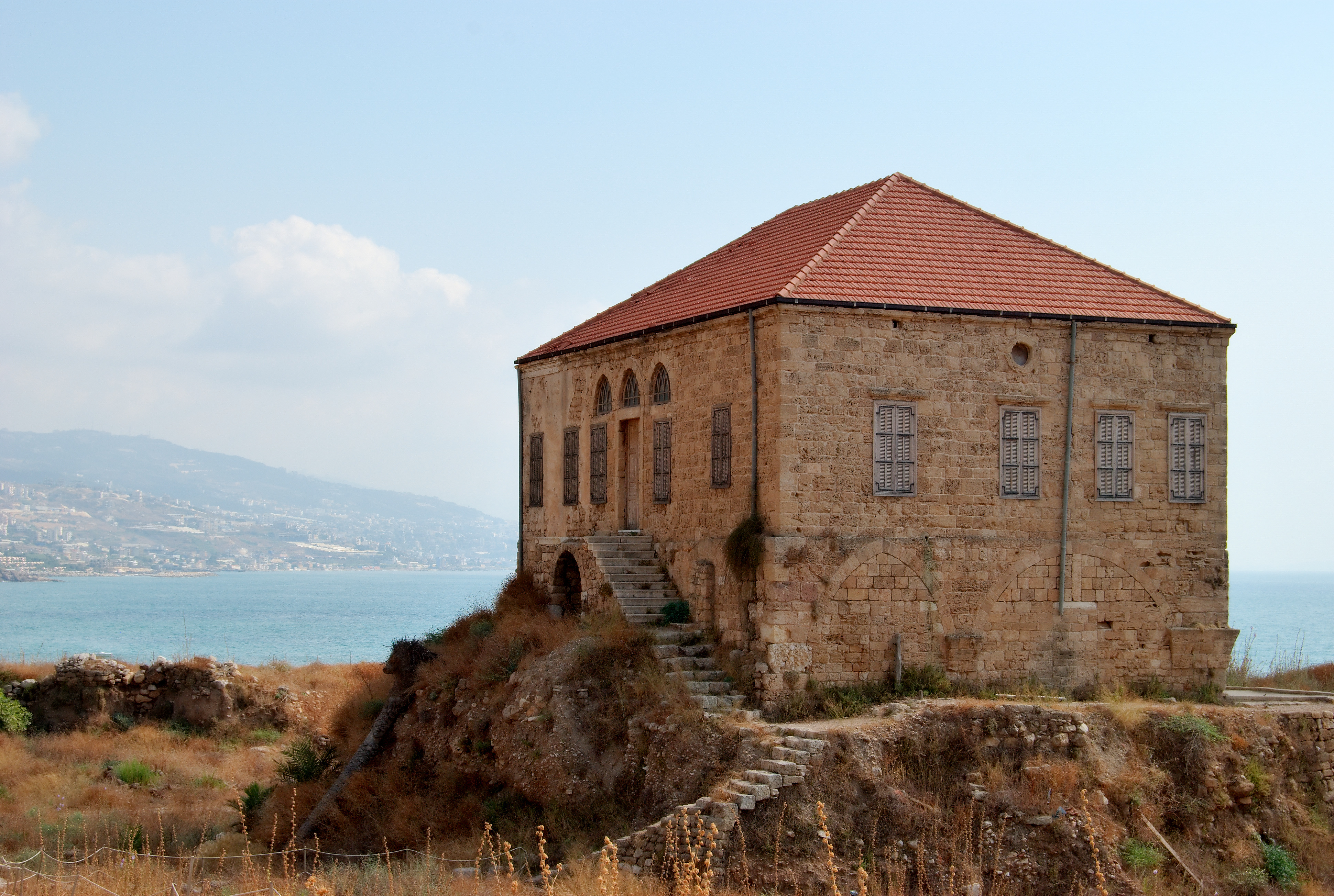 A traditional (at least for the 19th century) lebanese house on the seafront near Byblos Castle, Byblos, Lebanon. House of Ousman HOUSSAMI